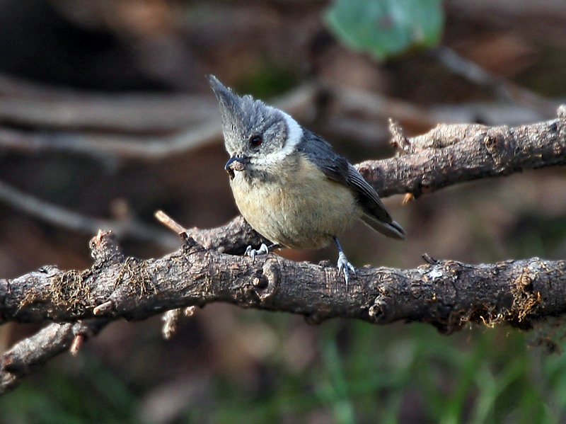 Grey-crested Tit Parus dichrous in Kullu District of Himachal Pradesh, India.